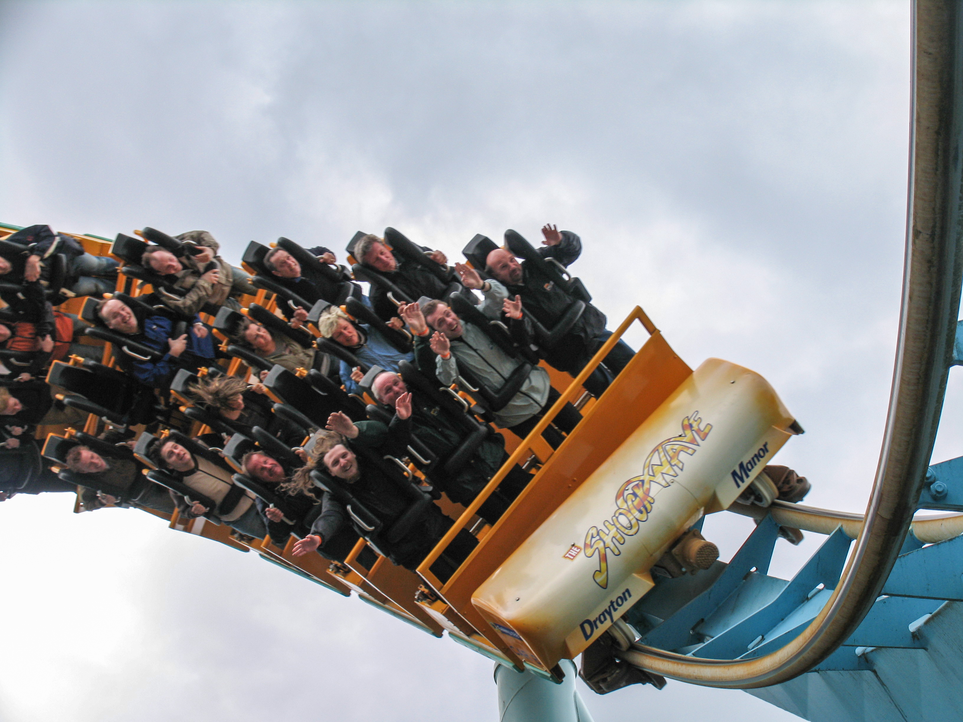 Drayton Manor Park, Shockwave